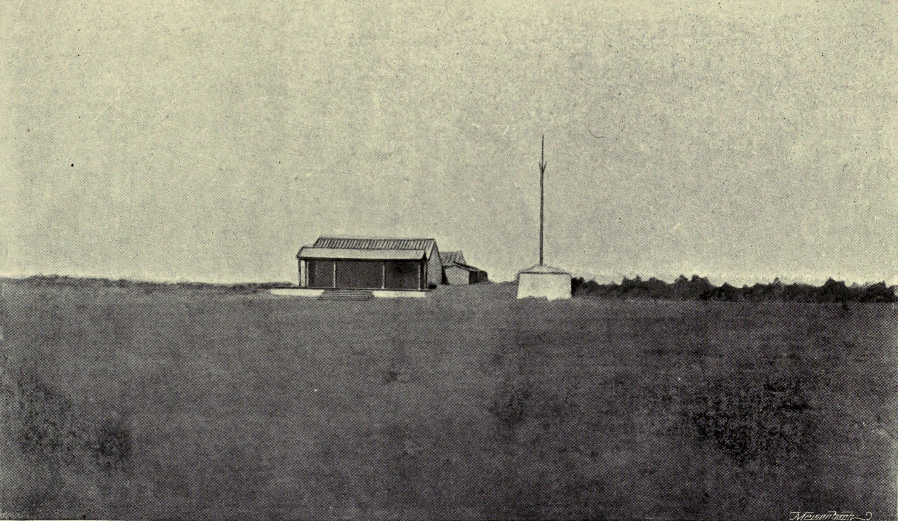 Parade Ground in Taiwanfoo where British subjects were executed in 1842.